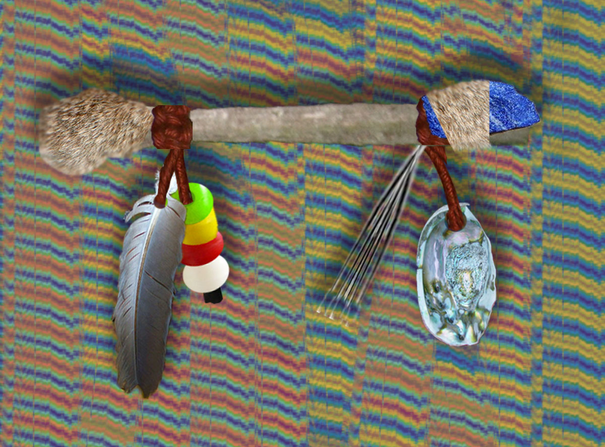 A Talking Stick A part of the indigenous culture of North America that I would love to see adopted among Sikhs. I made the background using the tie-dye tool in Photoshop CS4 (Extended). With thanks to the following contributors to Flickr Creative Commons: For the stick itself, a Kenyan tree: saragoldsmith for the eagle feather: derrypubliclibrary for the rabbit fur – on a living rabbit: Alan Vernon. and the beads from: Orin Zebest the rest of the pictures are from the Wikipedia Creative Commons, without attribution, unfortunately.